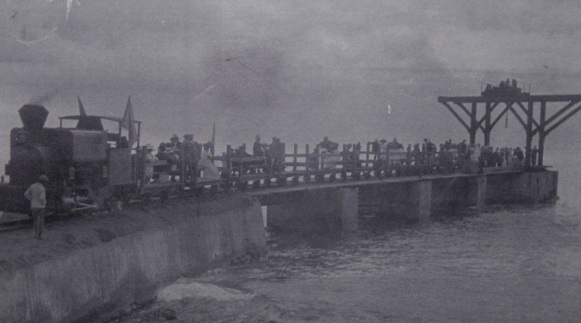 Special Train on new factory pier at opening of sugar factory, 1912 with steam locomotive No. 3 "Queen Mary". Historic photograph of the 'first passenger train' to ever run in St. Kitts. National Museum Collection in the Old Treasury Building of St. Kitts und Nevis.